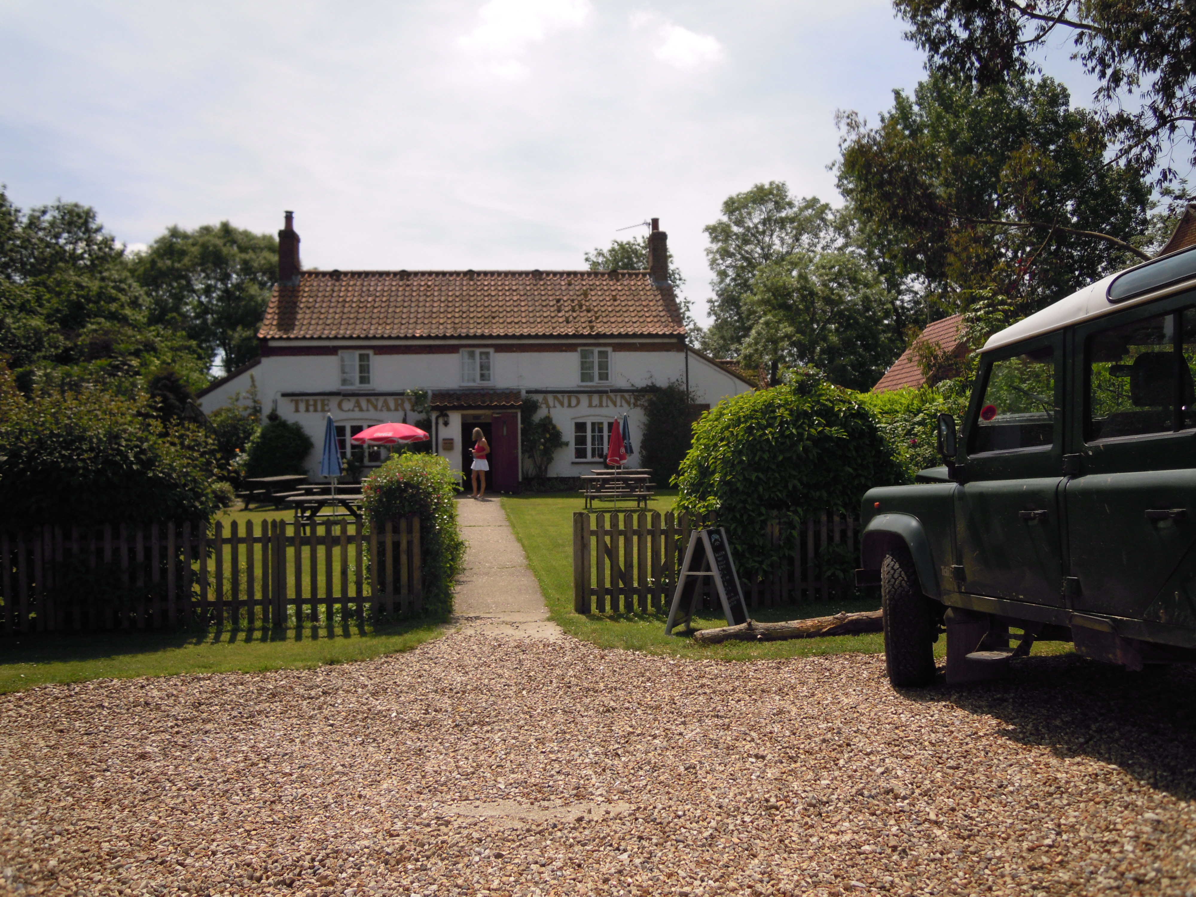 The Canary and Linnet public house, Main Road, Little Fransham, Nr Dereham, Norfolk NR19 2JW